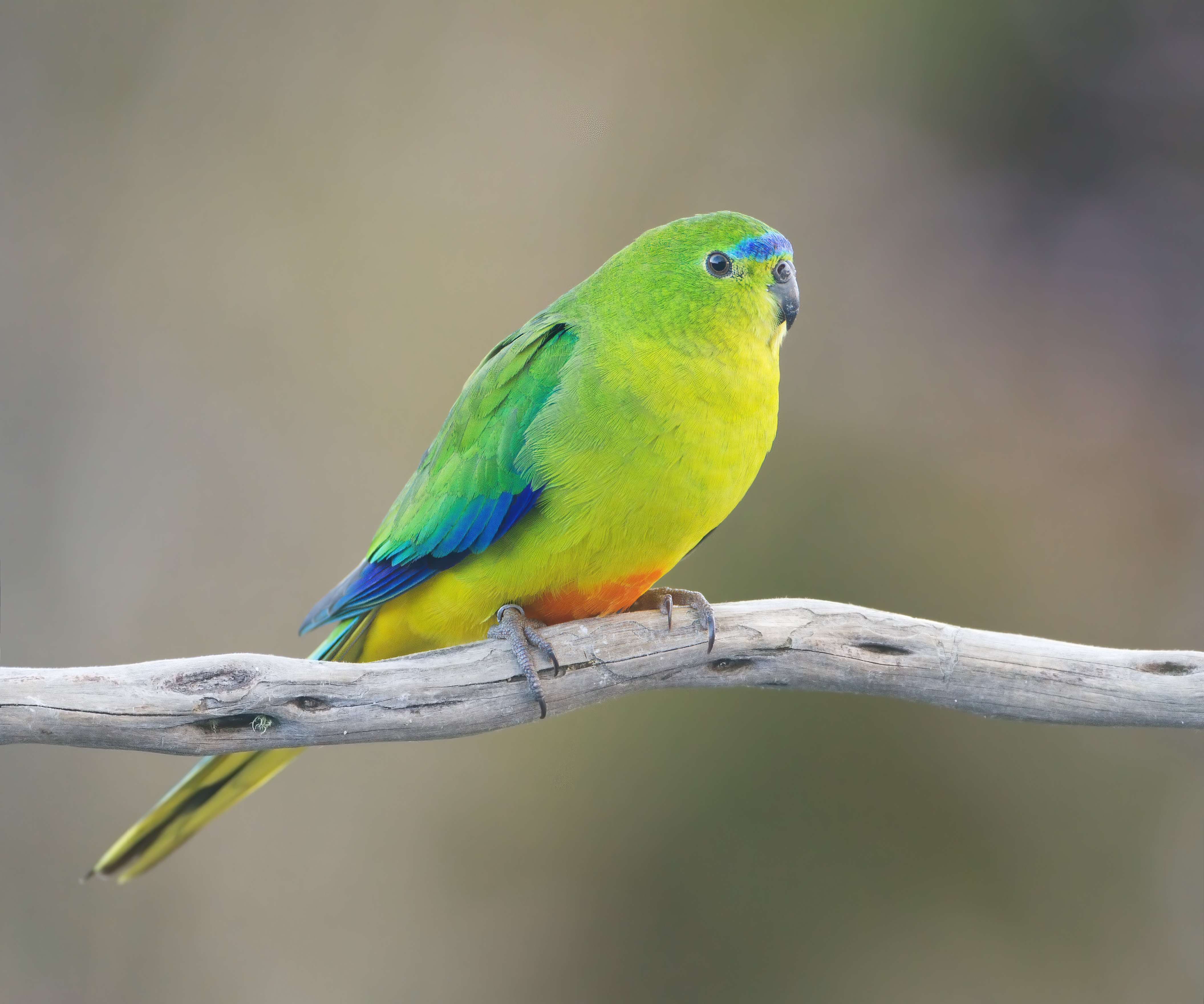 Orange-bellied Parrot (Neophema chrysogaster) female, Melaleuca, Southwest Conservation Area, Tasmania, Australia